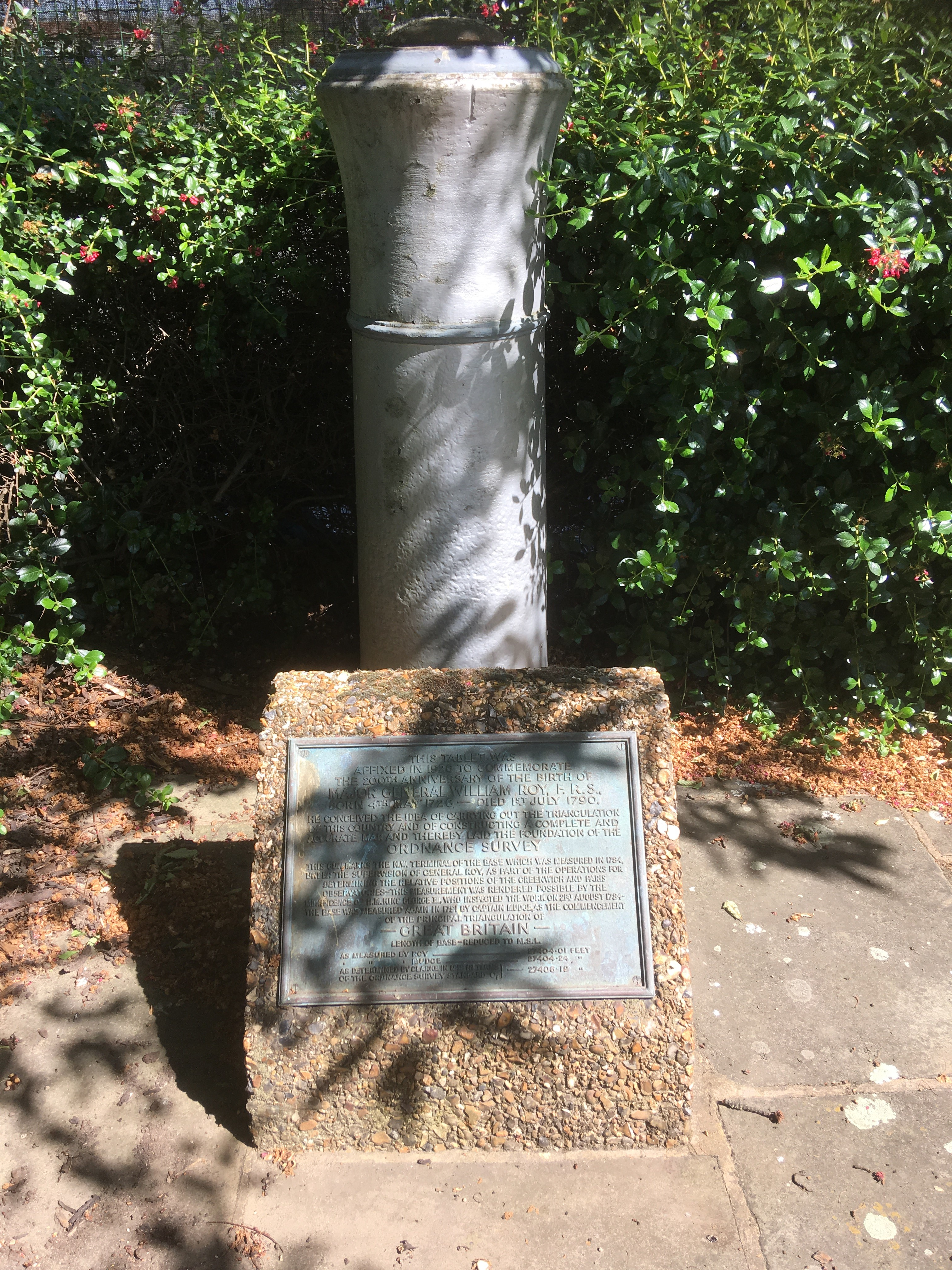 Cannon marking the northern end of William Roy's Hounslow baseline